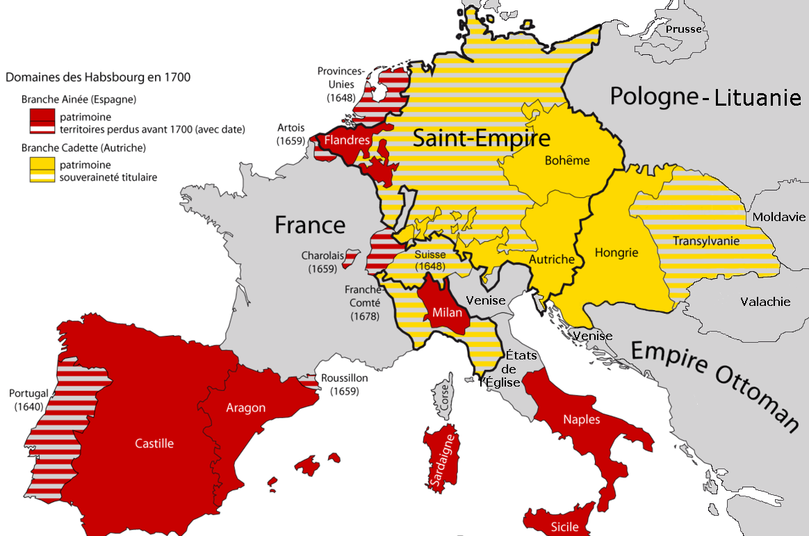 Map of Habsburg dominions in 1700